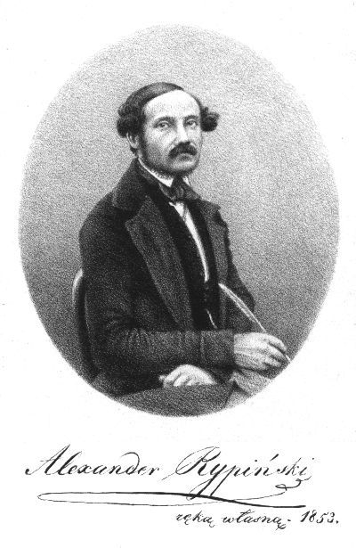 Alexander Rypiński